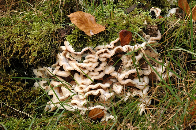 Merulius tremellosus from Commanster, Belgium. The determination of the species shown in this picture has been verified.